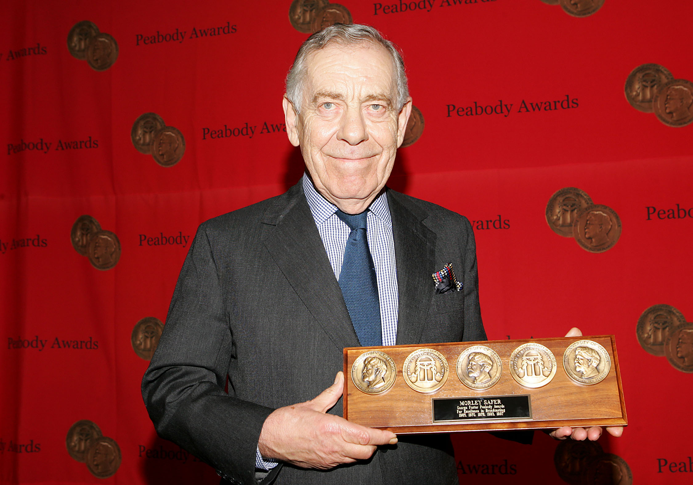 New York, NY - Veteran CBS News correspondent and 60 Minutes co-editor Morley Safer hosted the 64th Annual George Foster Peabody Awards ceremony today at the Waldorf-Astoria in New York. Safer has won three Peabodys during his six decades on television. Administered by the University of GeorgiaÕs Grady College of Journalism and Mass Communication as the best in electronic media, 32 awards were handed out this year for excellence in electronic media for 2004. -PICTURED: Morley Safer -PHOTO by: Albert Ferreira/startraksphoto.com -AF32713